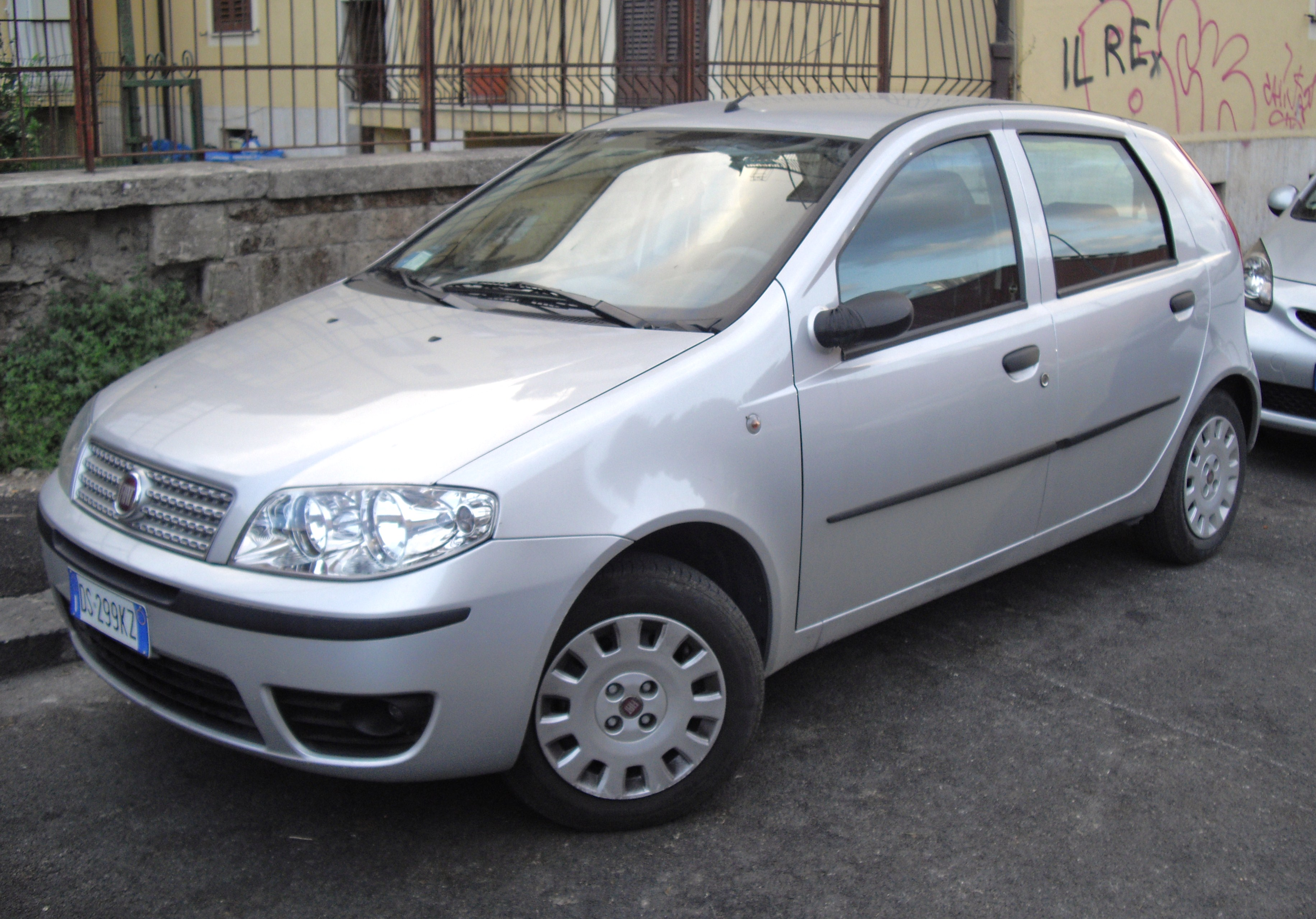 2010 Fiat Punto Classic Natural Power